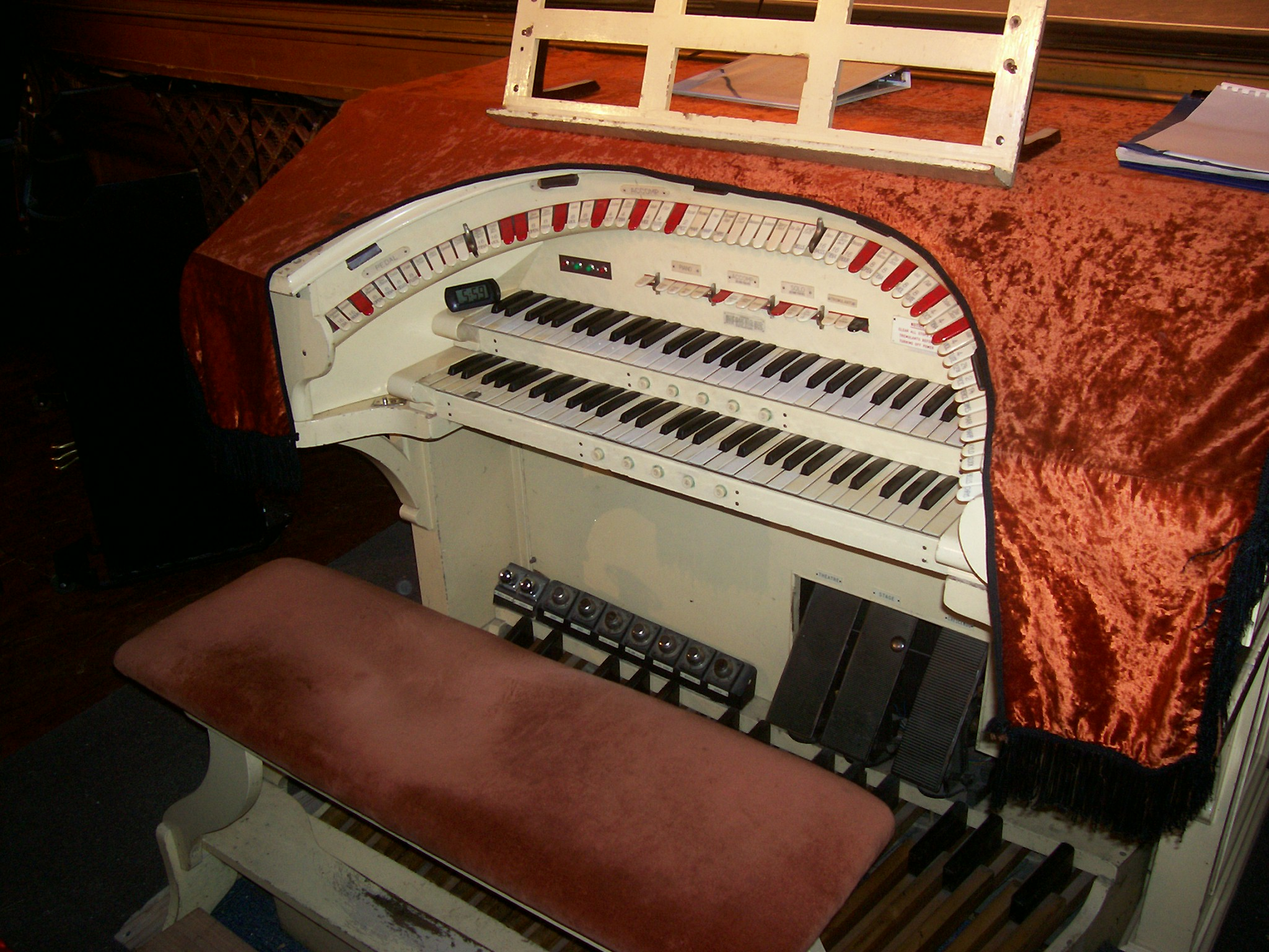 Up-close view of the Wurlitzer console.